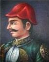 Nepali Generals and Commander-in-Chiefs between (1804-06) to 1887 AD; Rana Jang Pande